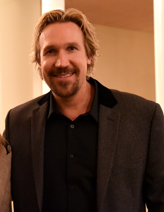 A cropped version of the file, DavidARWhite.jpg.